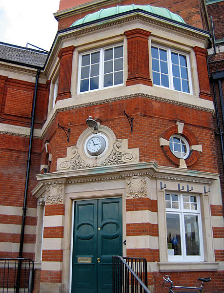 Dulwich Library, 368 Lordship Lane, Southwark, London. Taken by C Ford, 6th July 2004.